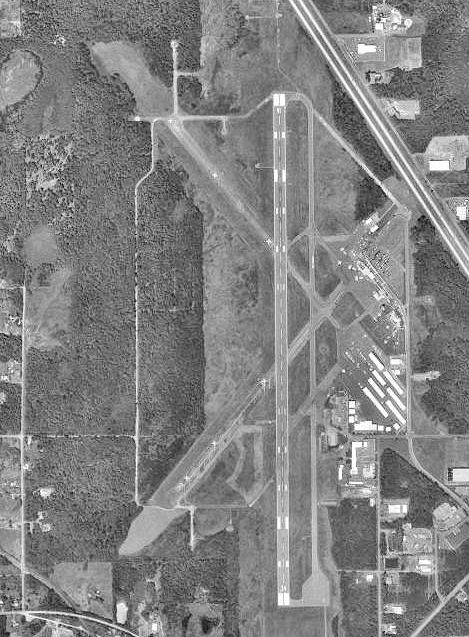 USGS digital orthophoto of Bellingham International Airport in the U.S. state of Washington